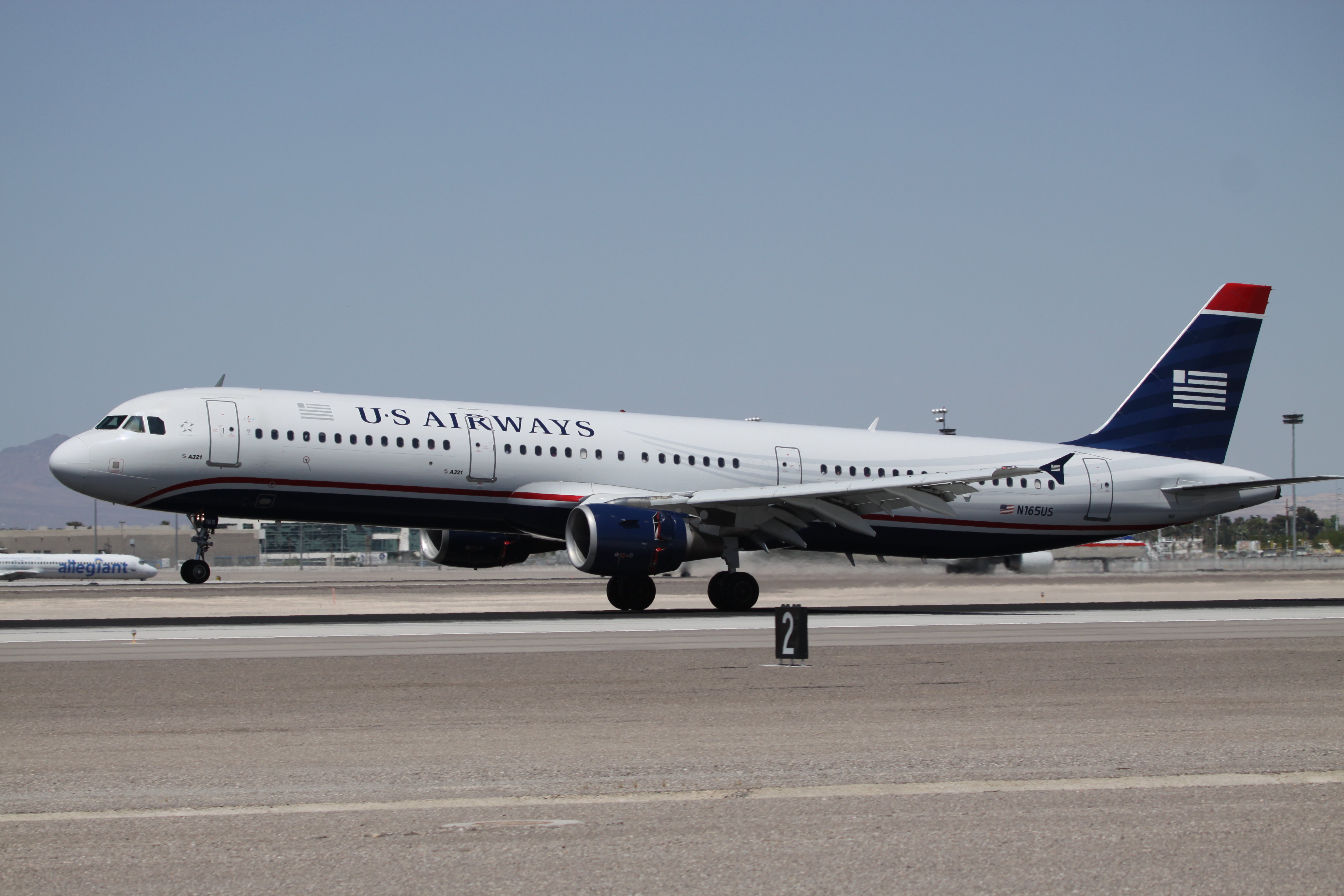 At Las Vegas McCarran International Airport